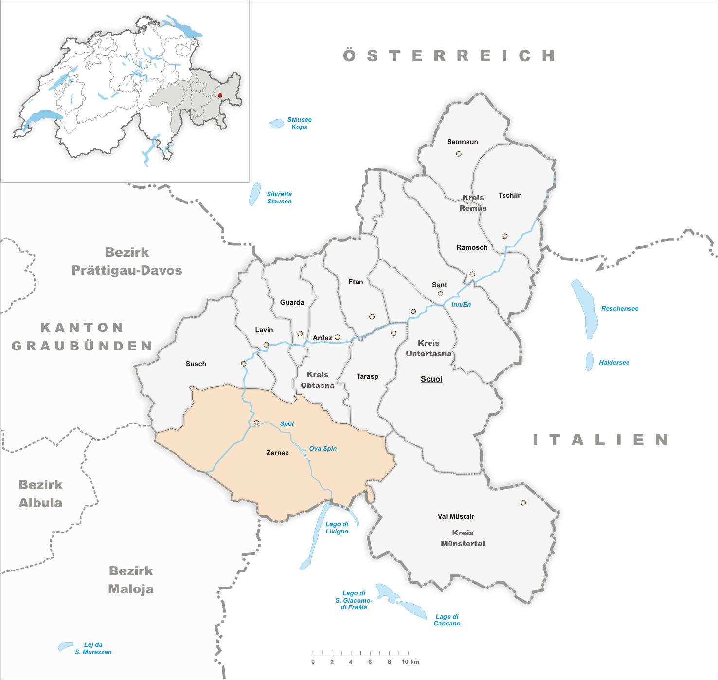 Municipality Zernez